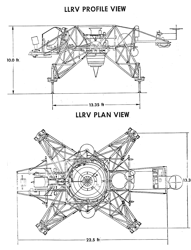 LLRV two view diagram